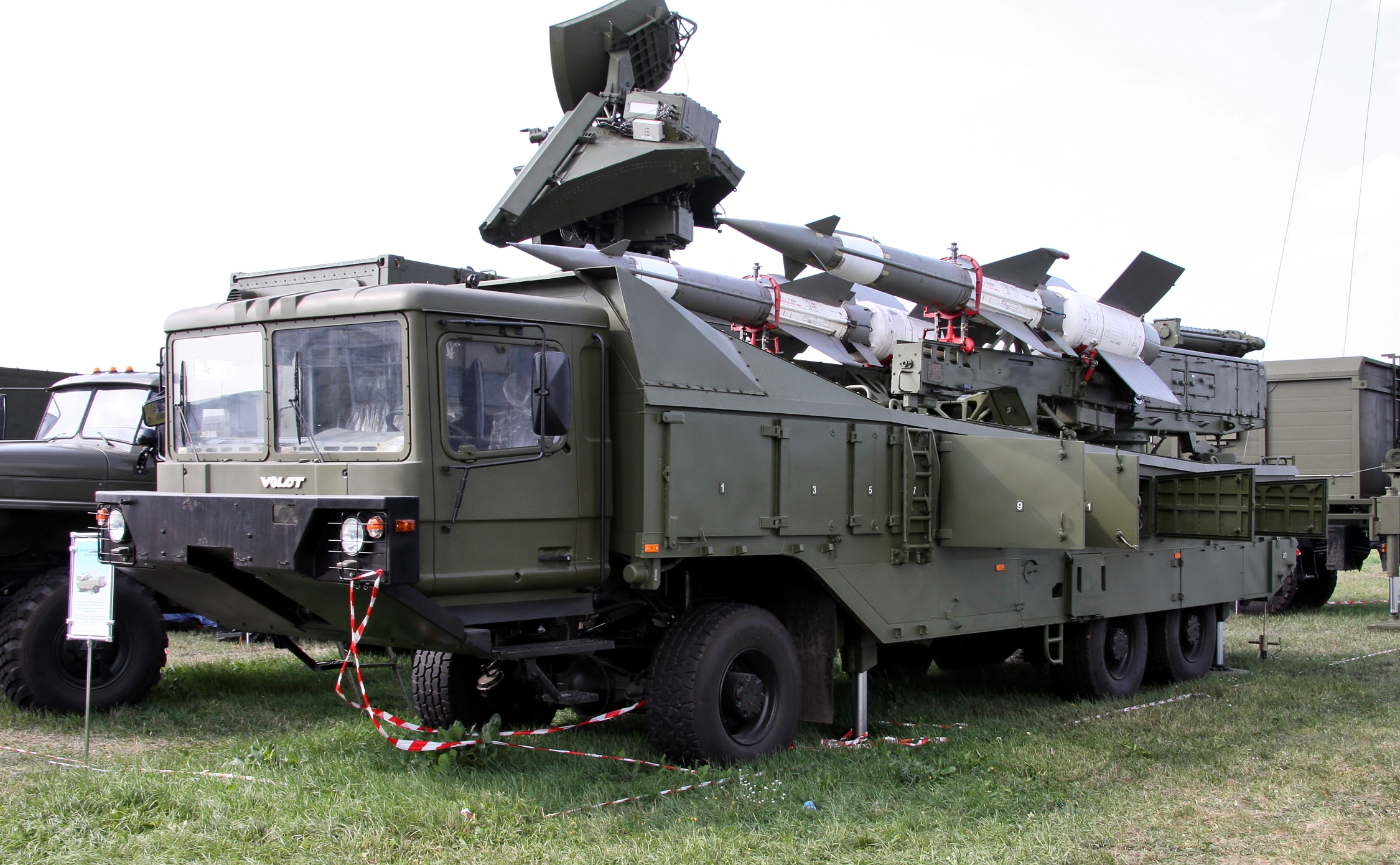 A 5P73-2M TEL on a MZKT-8021 chassis from the Pechora-2M missile system.